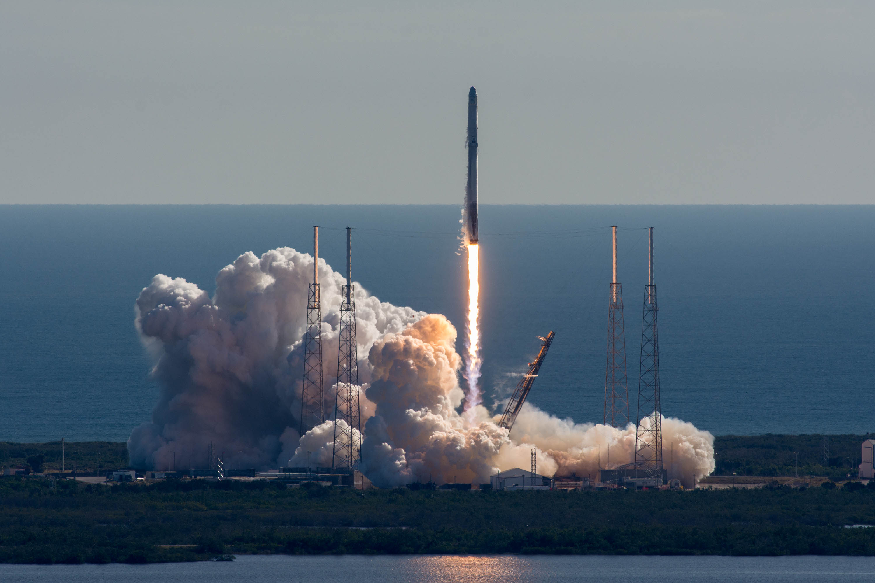 CRS-13 Mission